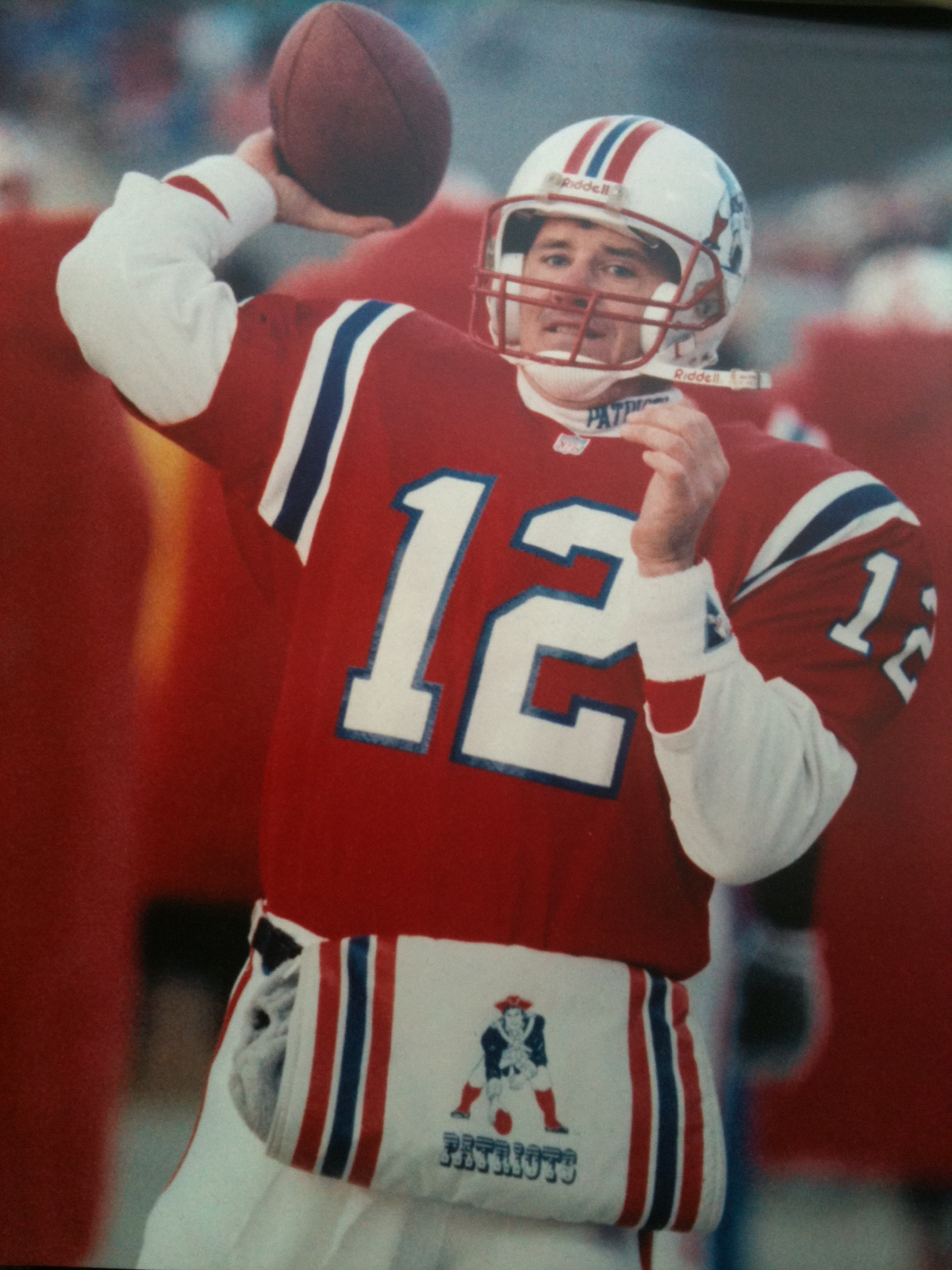 lee saltz